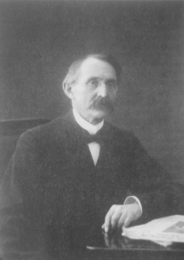 Yakov Novitski (1847—1925)